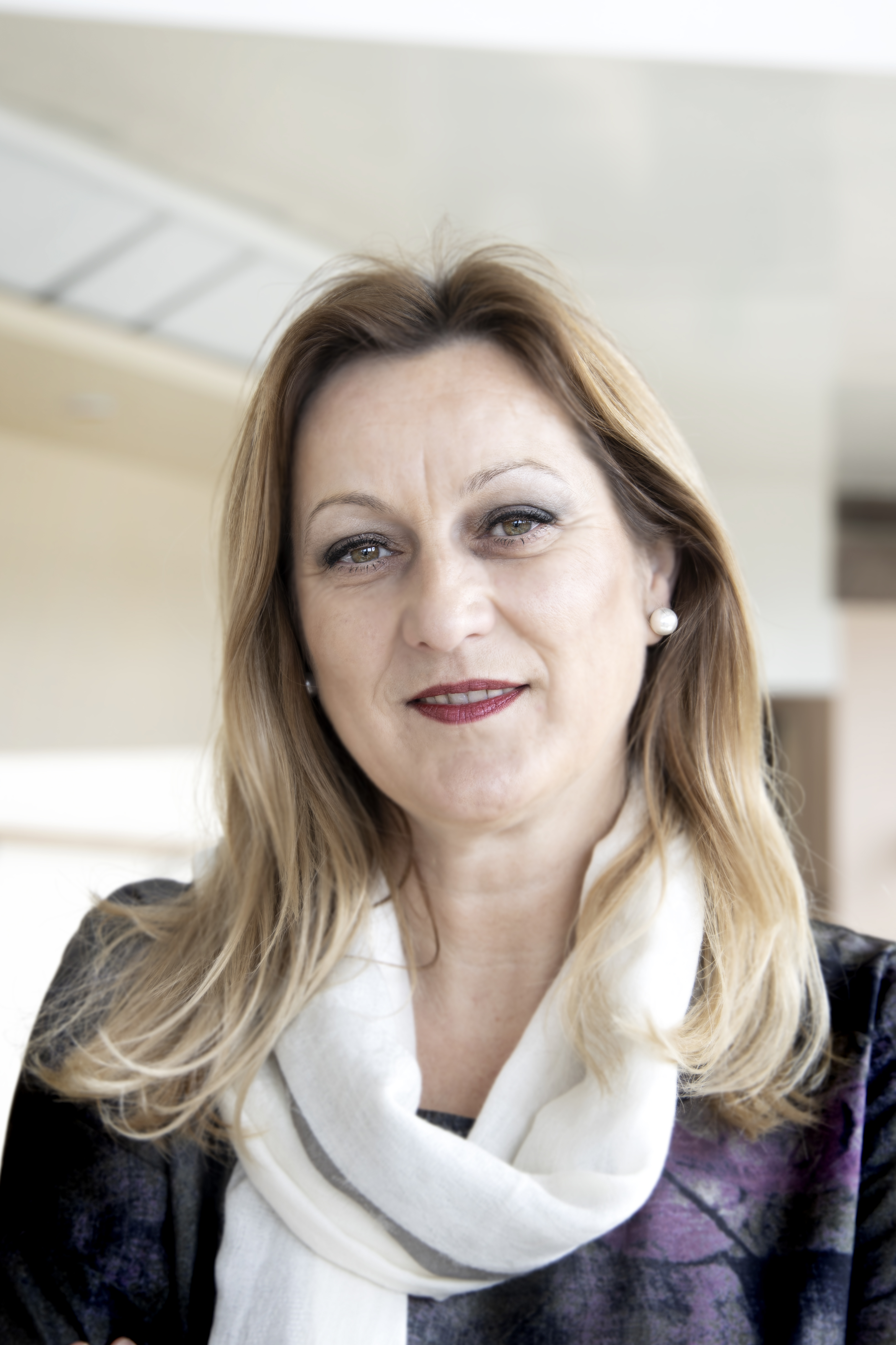 Nermina Mizimovic in March 2019